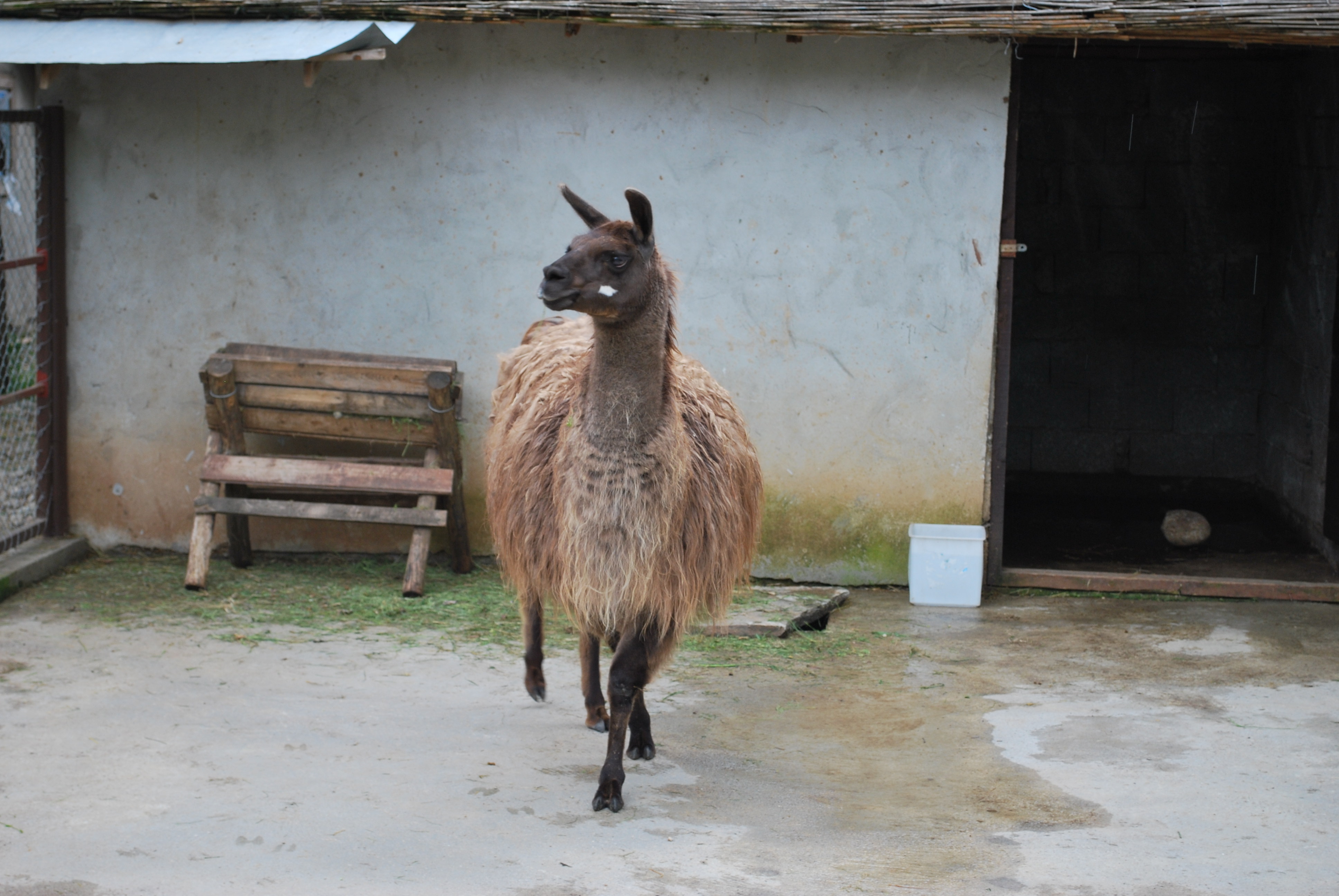 Park Ginovci near Kriva Palanka, Macedonia